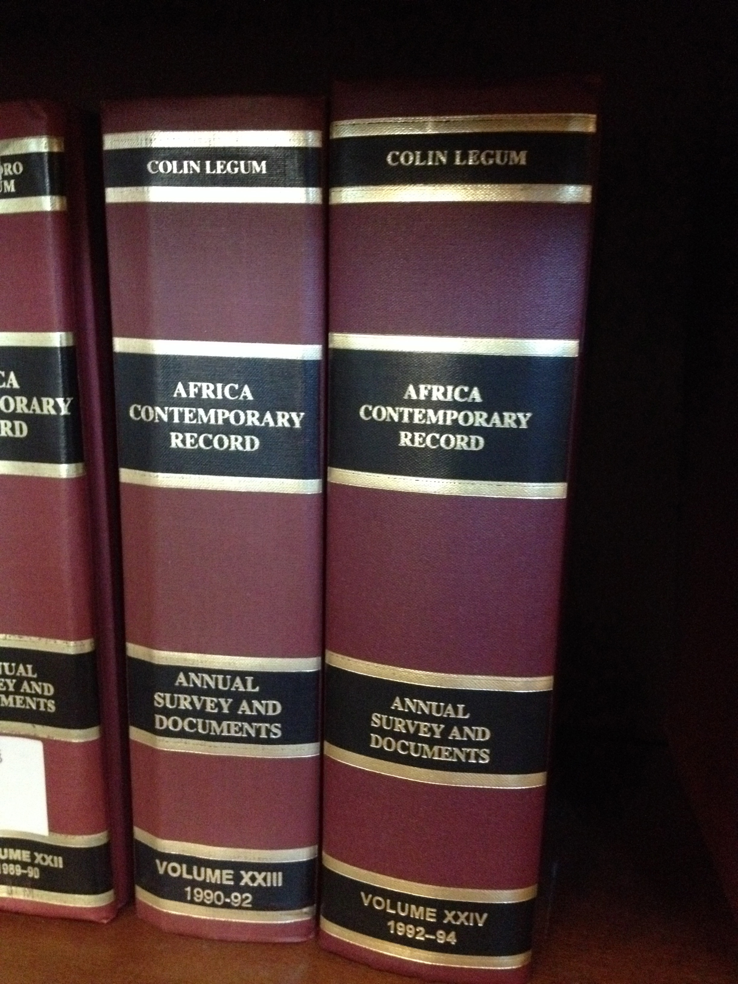 Useful reference books about Africa - Example4